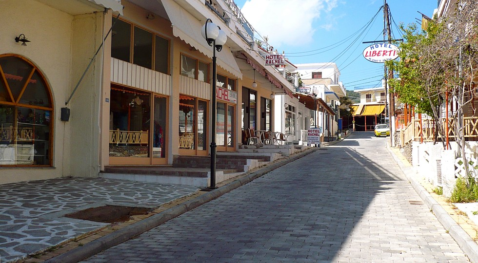 The picture depicts the Agia Marina neighbourhood at Aegina.